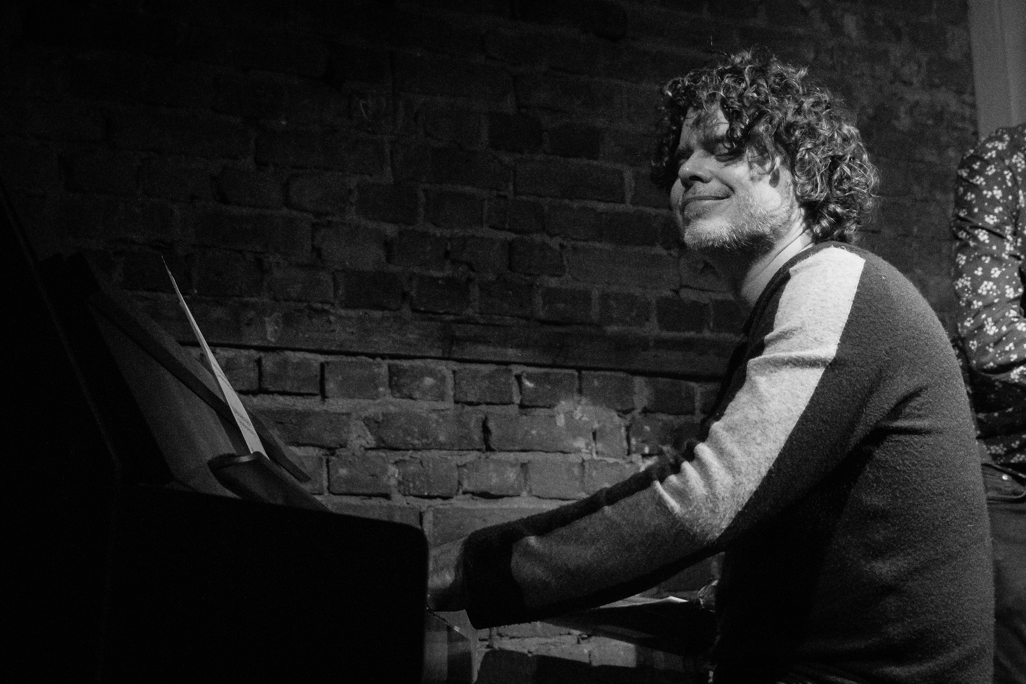 Harmen Fraanje in a concert with Mats Eilertsen Trio at Kafe Hærverk. The concert took place on 08. November 2019 in Oslo. Lineup:Mats Eilertsen (double bass)Harmen Fraanje (piano)Thomas Strønen (drums and percussion)